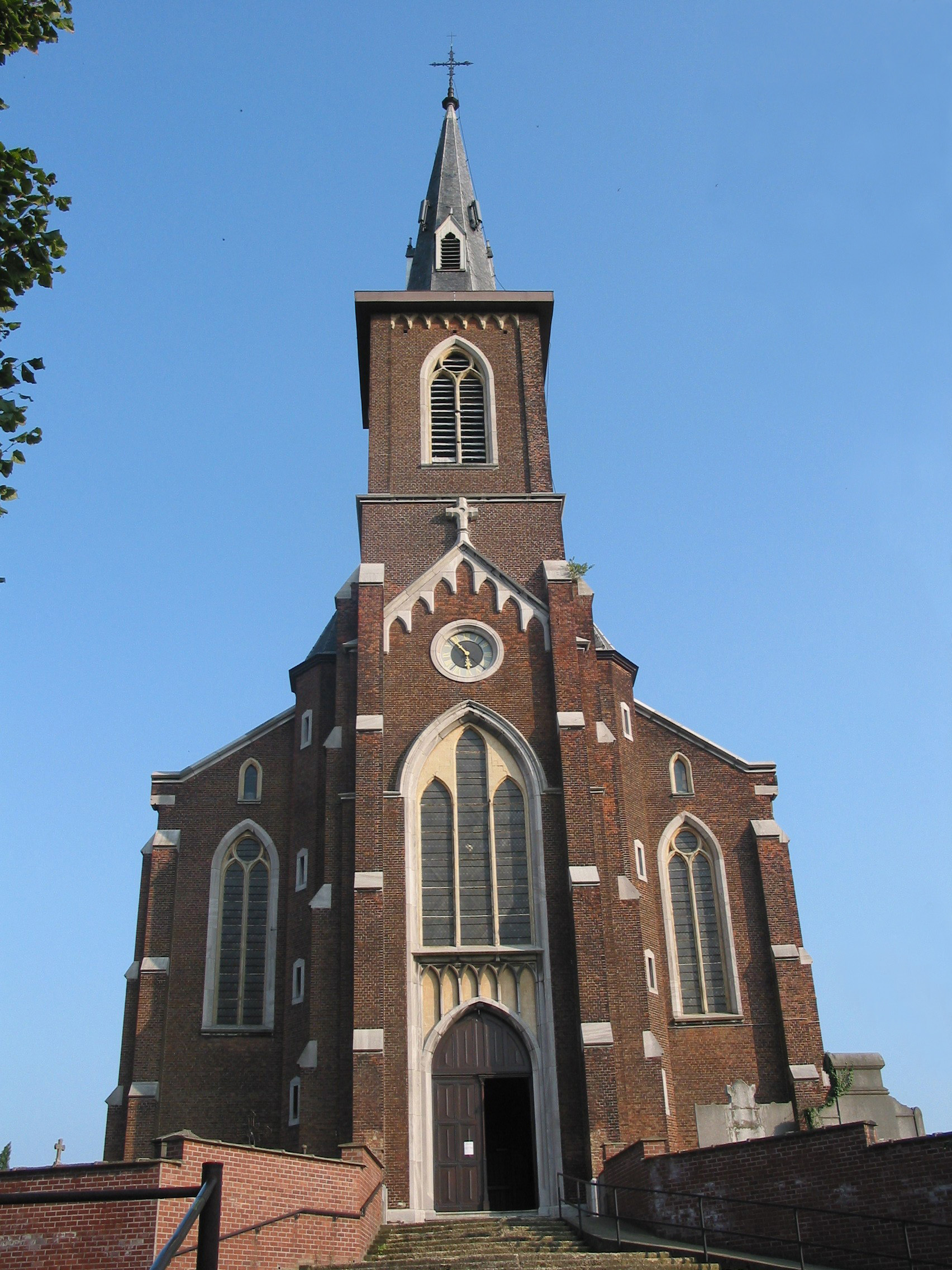 Horion-Hozémon (Belgium), the St. Sauveur church (XIXth century).